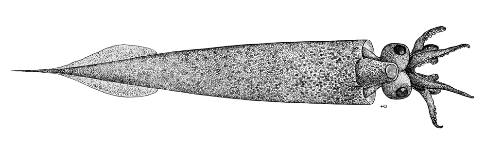 Taonius borealis female